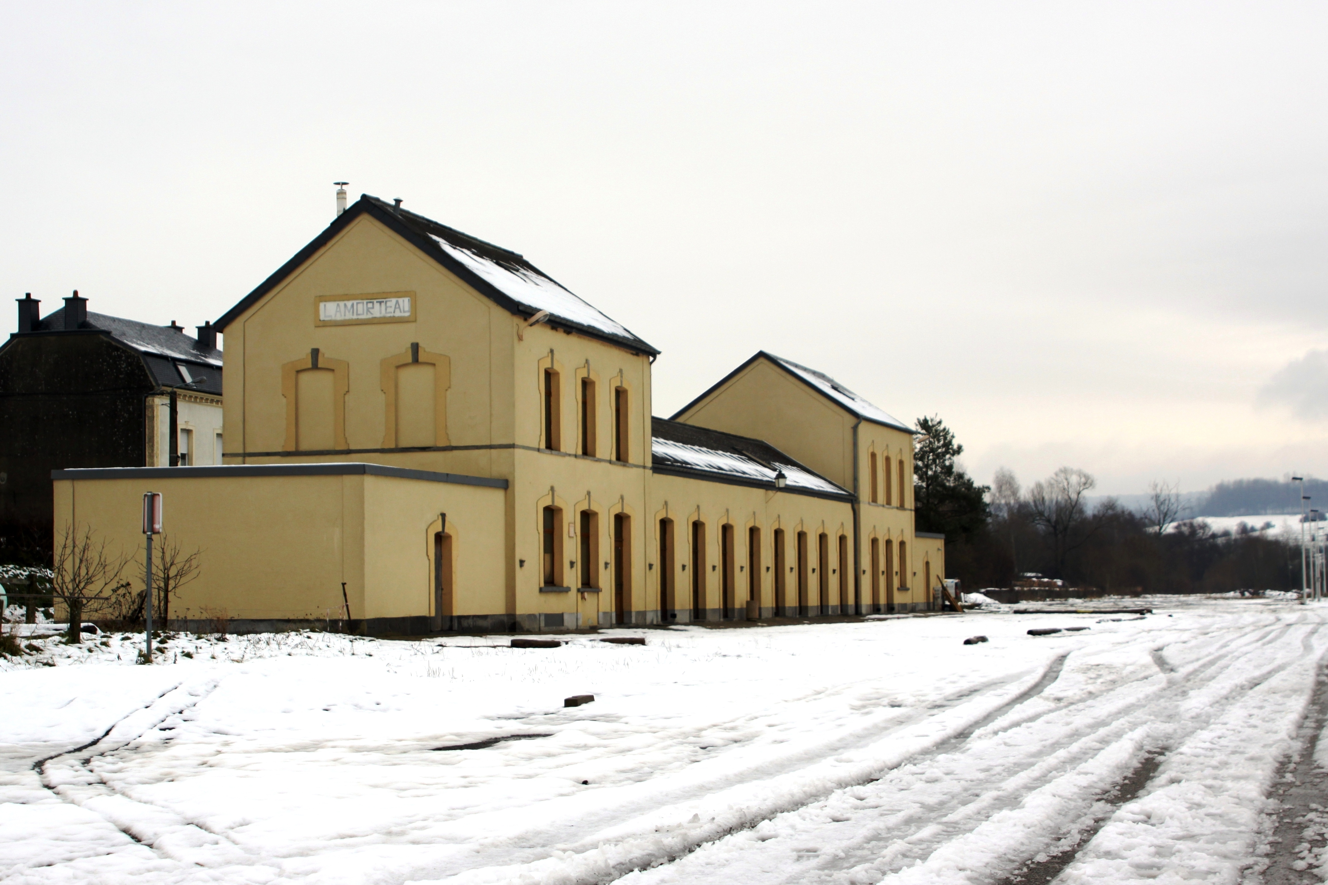 Train station Lamorteau